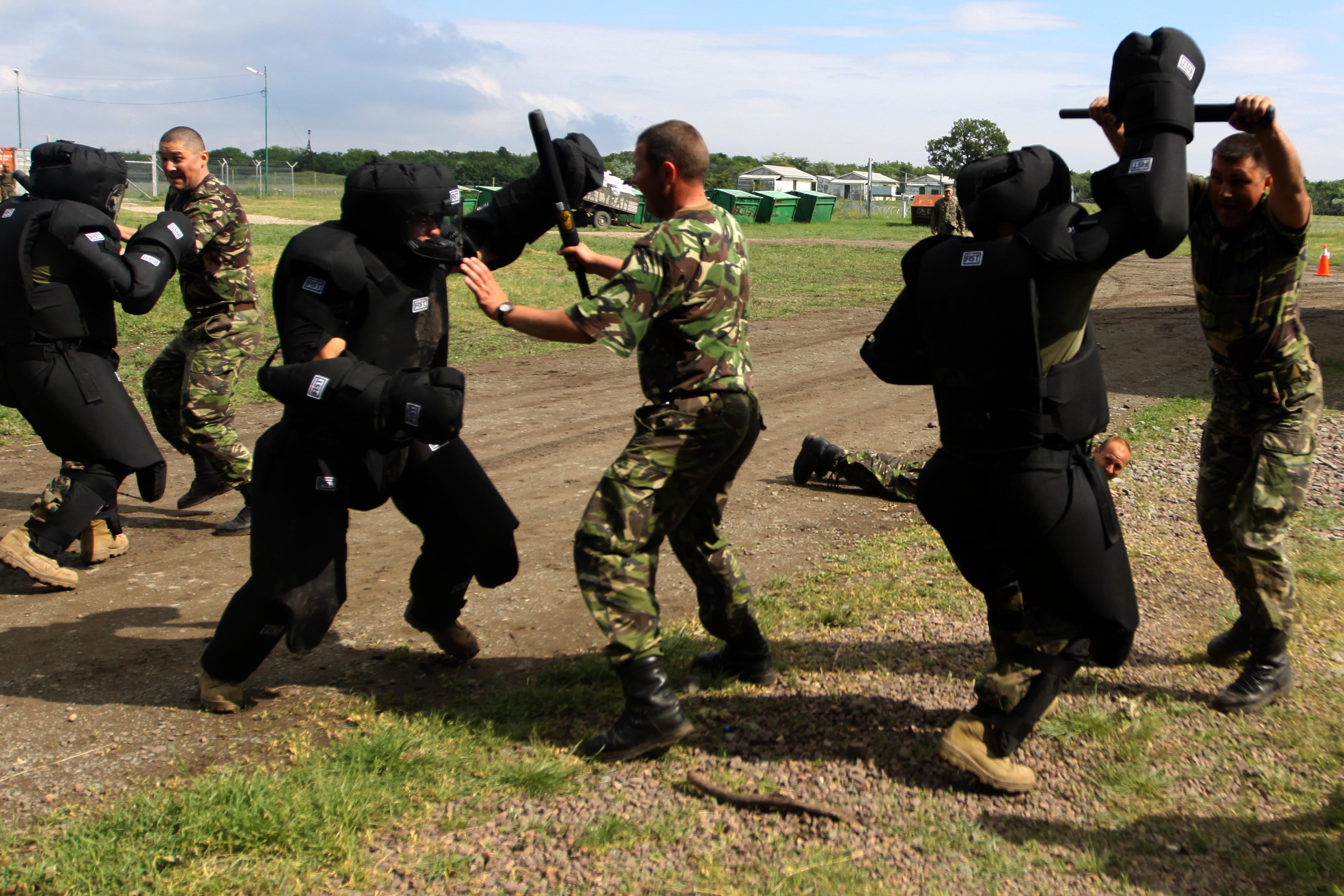 Romanian Marines with Amphibious Company, 307th Battalion, fight off attackers during a landing zone drill casualty evacuation designed to test their teamwork and nonlethal skills at Babadag Training Area, Romania, May 20. Marines and Sailors with scout platoon, Headquarters and Service Co., 1st Tank Bn., are training with the Romanians to better enhance their martial arts skills through the Marine Corps Martial Arts Program.